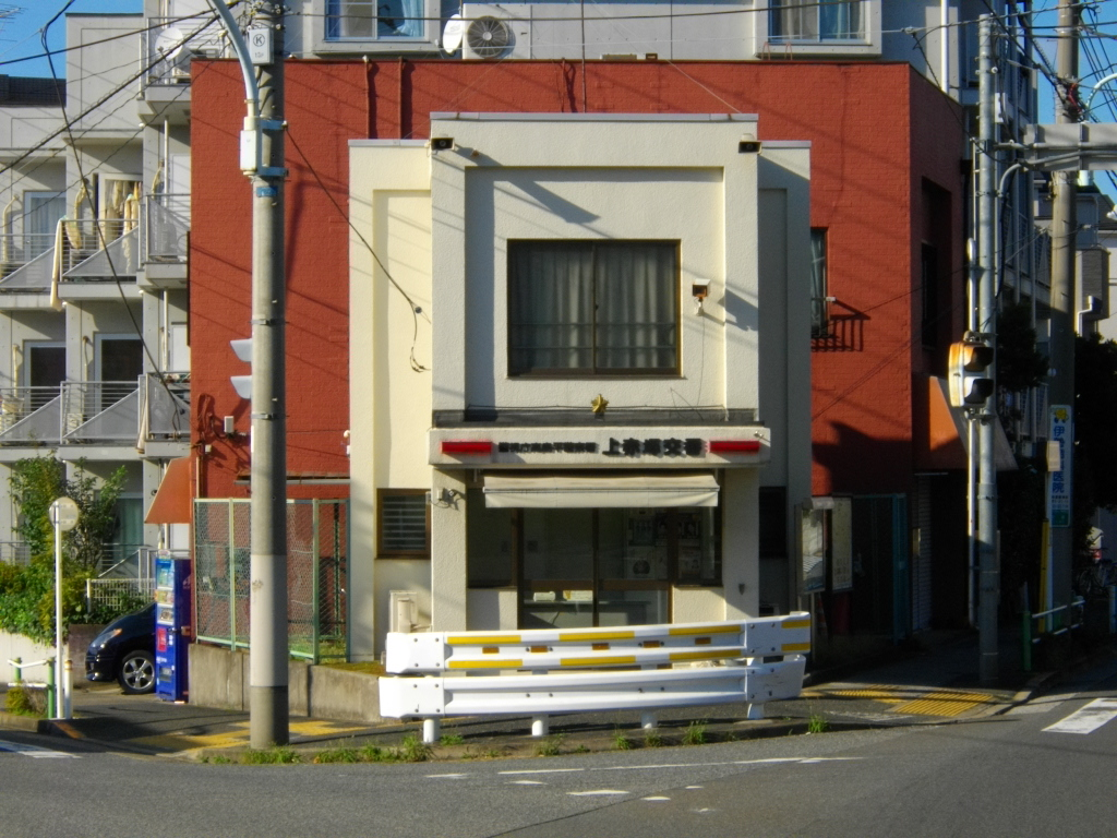 Kami-Akatsuka Koban